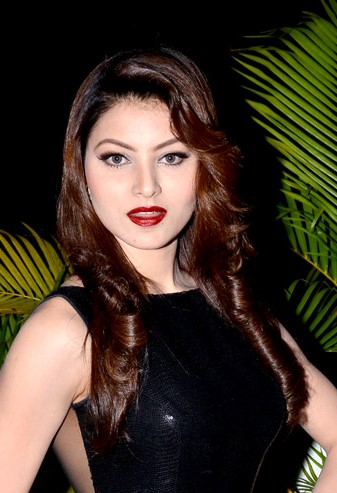 Urvashi Rautela at Rajat Tangri's preview at Atosa